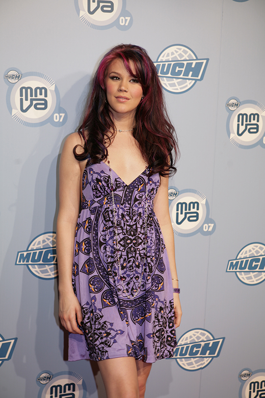 Joss Stone was an attendee at the 2007 MuchMusic Video Awards, held the night of Sunday, June 17, 2007 in Toronto, Ontario, Canada.